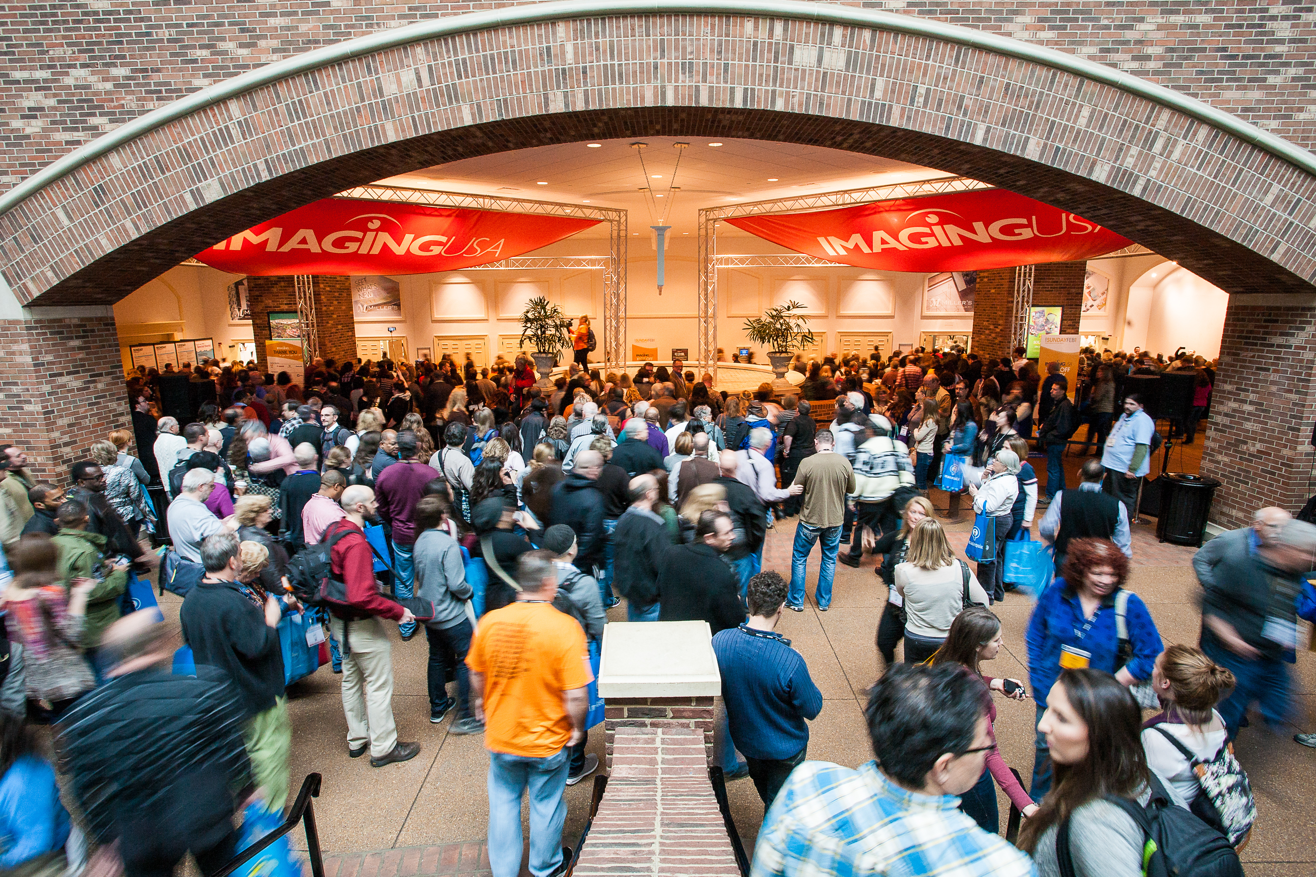 Imaging USA